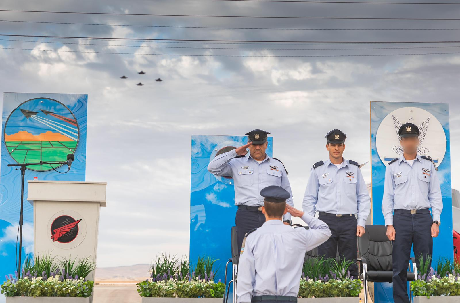 IDF’s new stealth squadron. “The Southern Lions”.